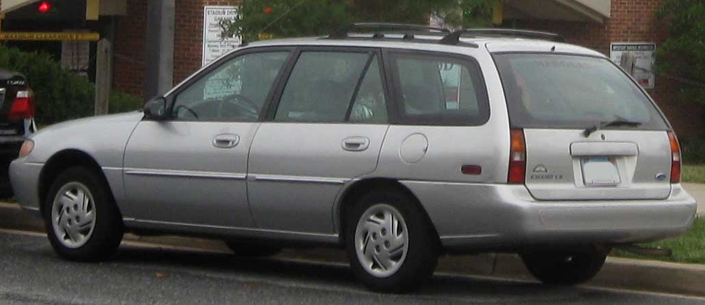 1997-1999 Ford Escort photographed in College Park, Maryland, USA.